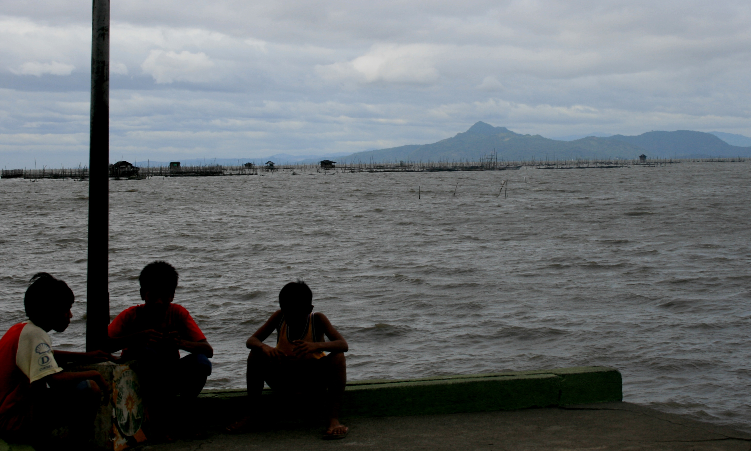 Dusk at the Los Baños pier (Laguna de Bay), with Talim Island and Mount Sembrano (Bundok ng Susong Dalaga) in the background